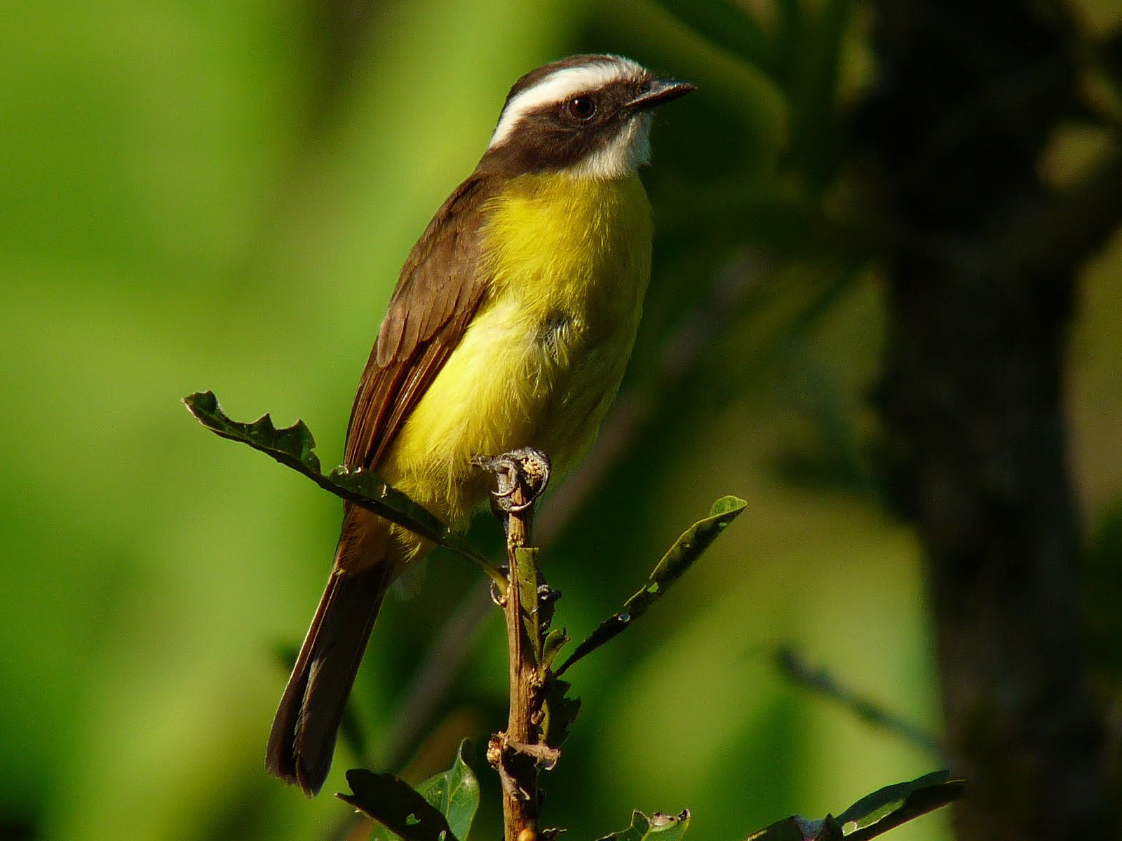 A Rusty-margined Flycatcher in Manizales, Caldas, Colombia.